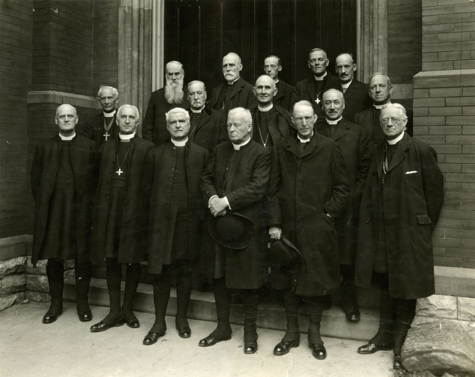 Anglican archbishops and bishops of Canada, c.1940 This photo shows, in the back row, from left to right: Samuel Pritchard Matheson, Clarendon Lamb Worrell, unknown, Alexander John Doull, William Charles White. In the middle row, from left to right: George Thorneloe, James Fielding Sweeny, Adam Urias de Pencier, John George Anderson, James Richard Lucas. In the front row, from left to right: Isaac O Stringer, John Cragg Farthing, David Williams, William Reid Clark, Edward John Bidwell, and John Charles Roper .